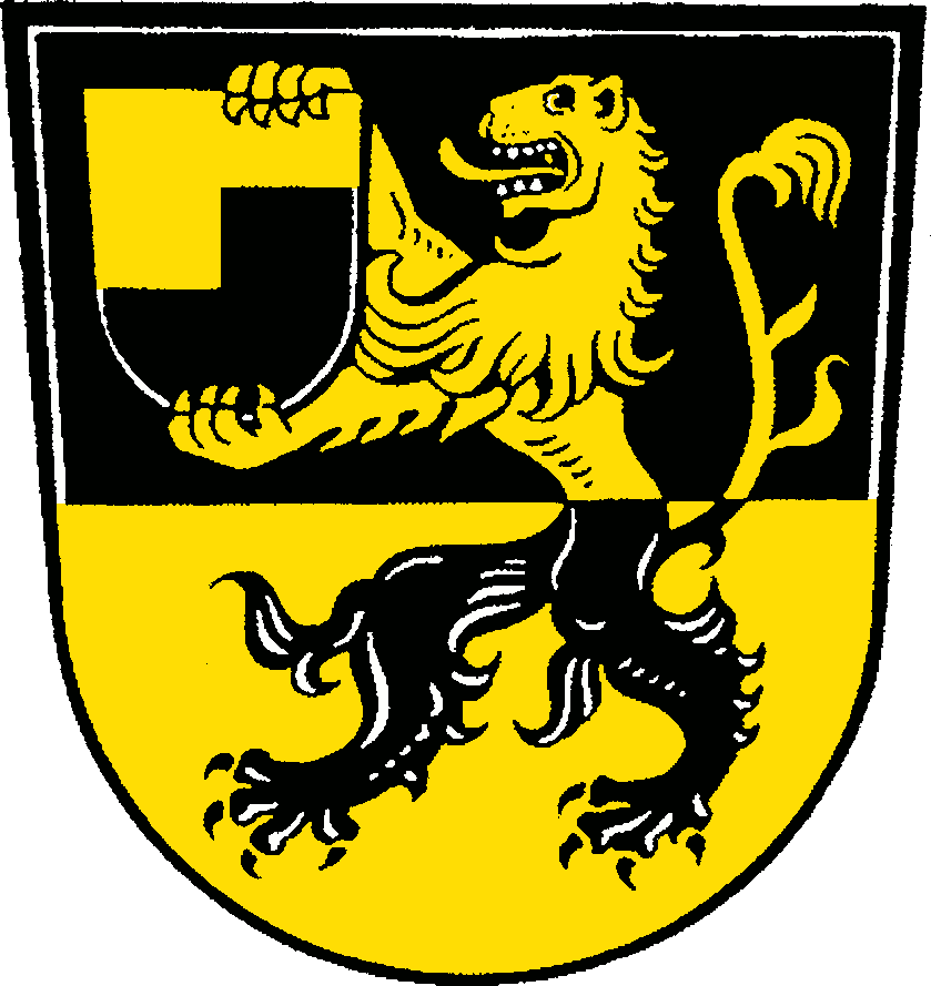 Coat of arms of the municipal Kirchdorf am Inn (Bayern)